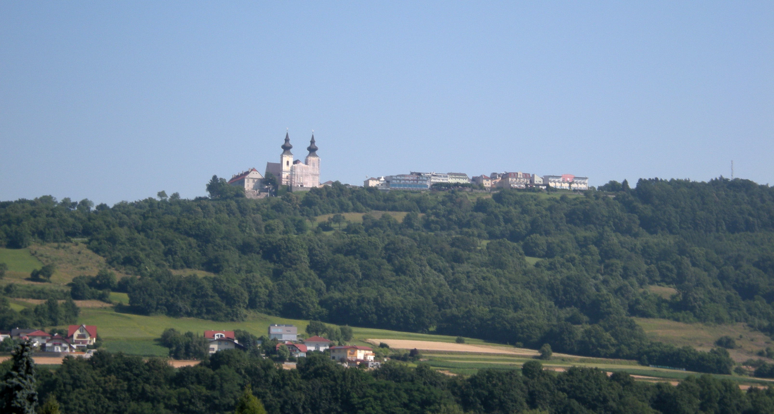 Maria Taferl and parts of Marbach seen from Krummnussbaum 20100712